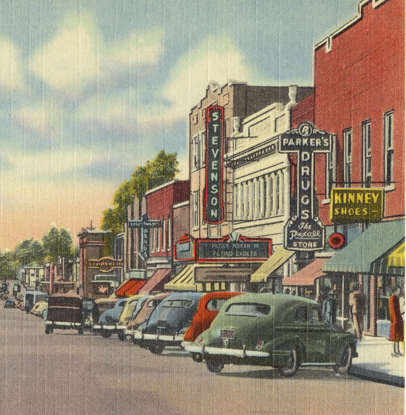 File name: 06_10_016028 Title: Main street, looking South, Henderson, North Carolina Created/Published: Pub. by Calvert News Co., Baltimore, MD.; Tichnor Bros. Inc., Boston, Mass. Date issued: 1930 - 1945 (approximate) Physical description: 1 print (postcard) : linen texture, color ; 3 1/2 x 5 1/2 in. Genre: Postcards Subjects: Cities & towns Notes: Collection: The Tichnor Brothers Collection Location: Boston Public Library, Print Department Rights: No known restrictions